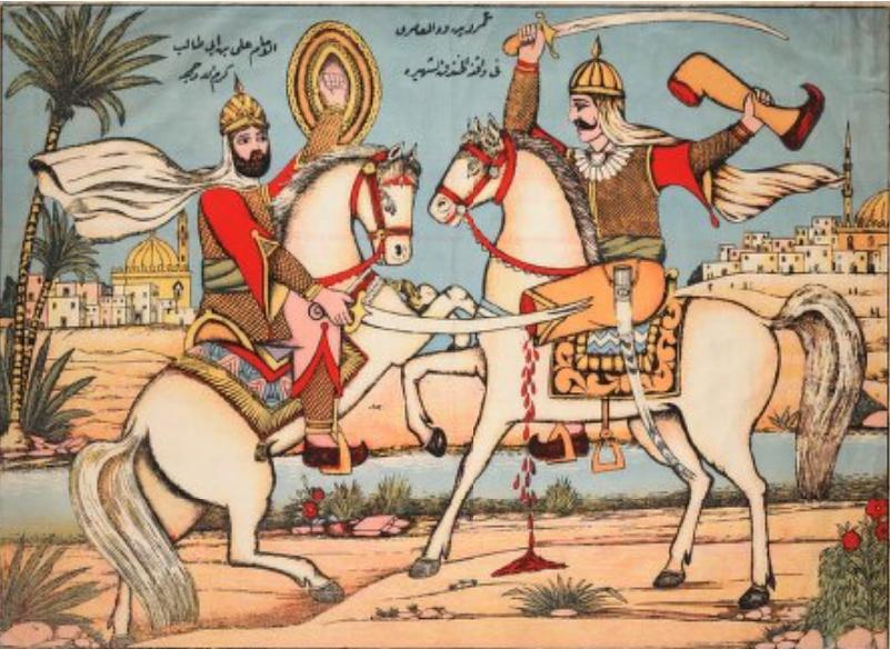 Combat between Ali ibn Abi Talib and Amr Ibn abde Wudd near Medina